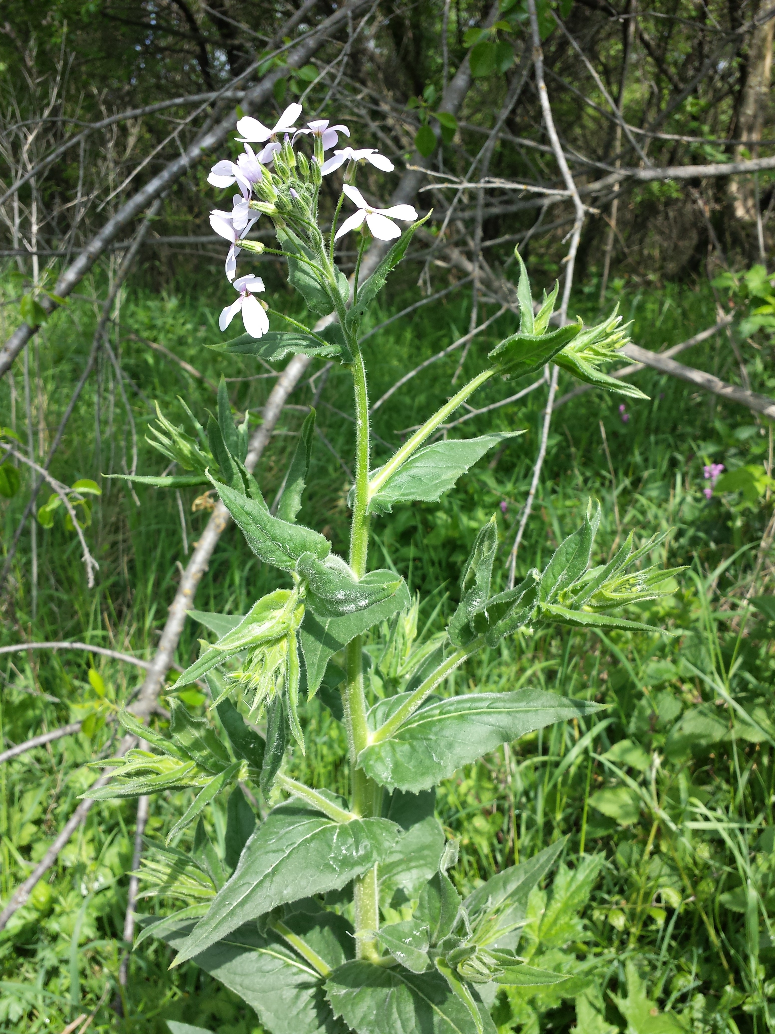 Inflorescence Taxonym: Hesperis sylvestris ss Fischer et al. EfÖLS 2008 ISBN 978-3-85474-187-9 Location: Steinberg near Ernstbrunn, district Korneuburg, Lower Austria - ca. 440 m a.s.l. Habitat: border of a wood